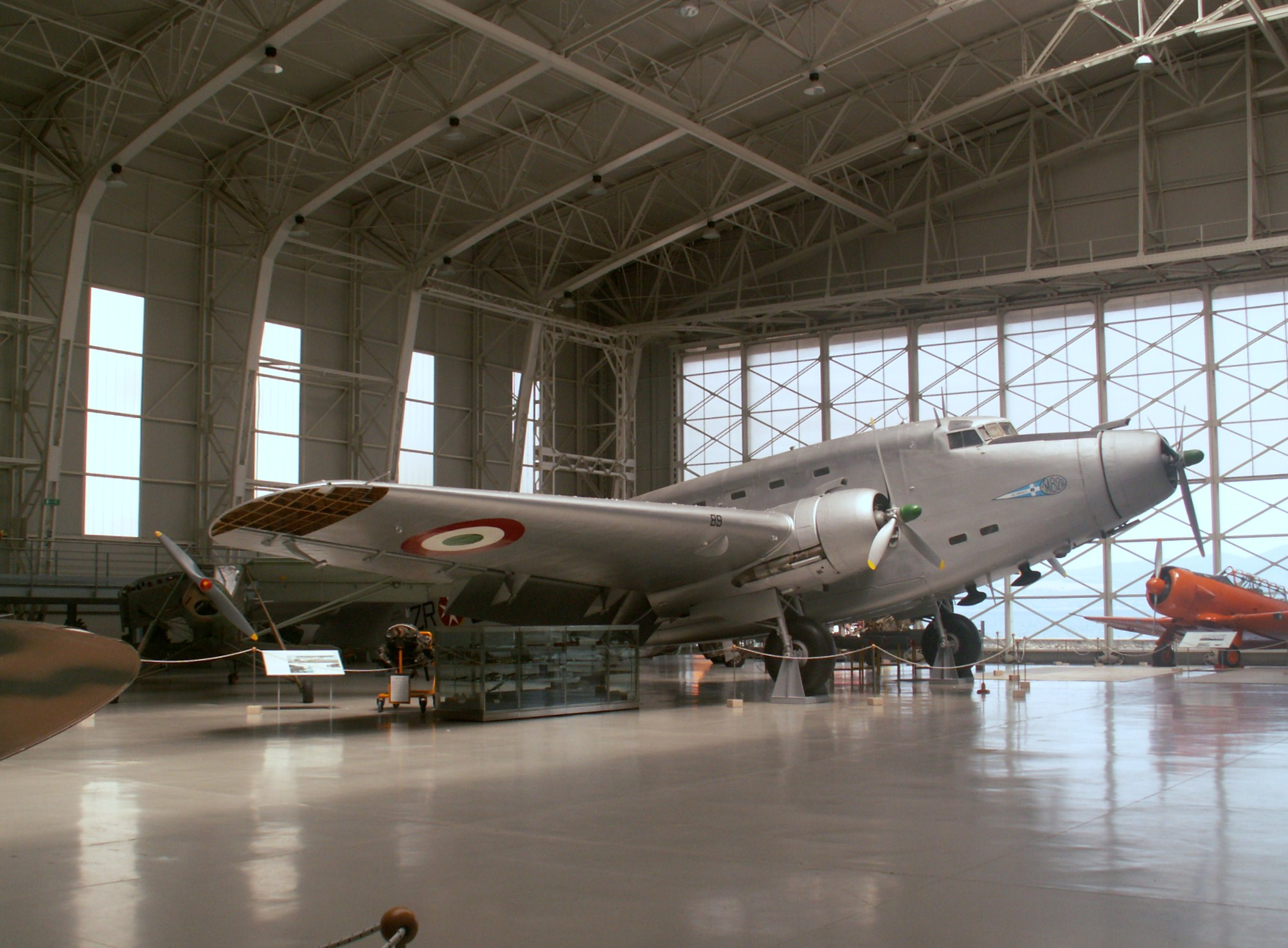 Savoia Marchetti SM 82 at the Italian Air Force Museum, Vigna di Valle